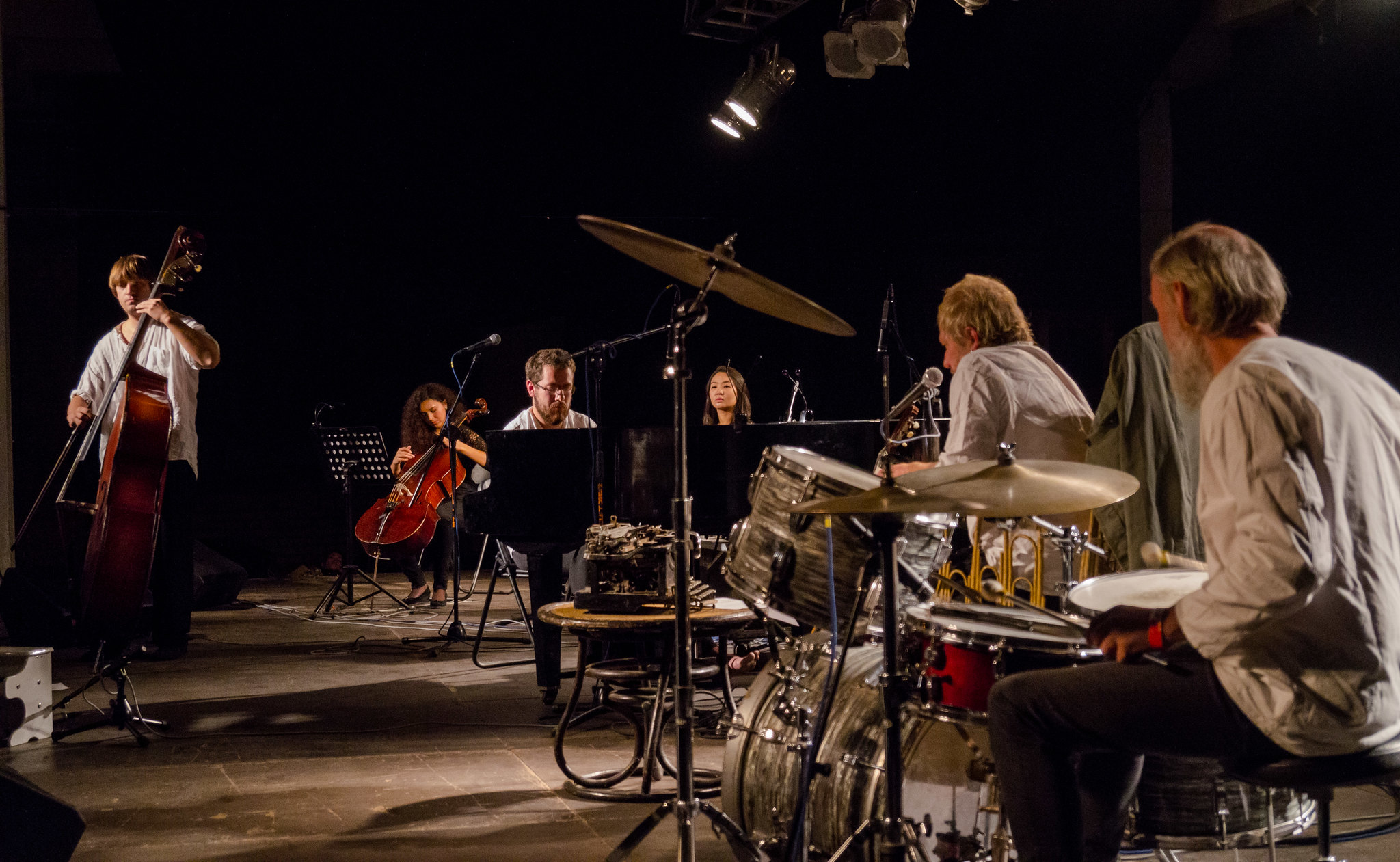 Dream-opera neprOsti, stage. Photo Artem Galkin